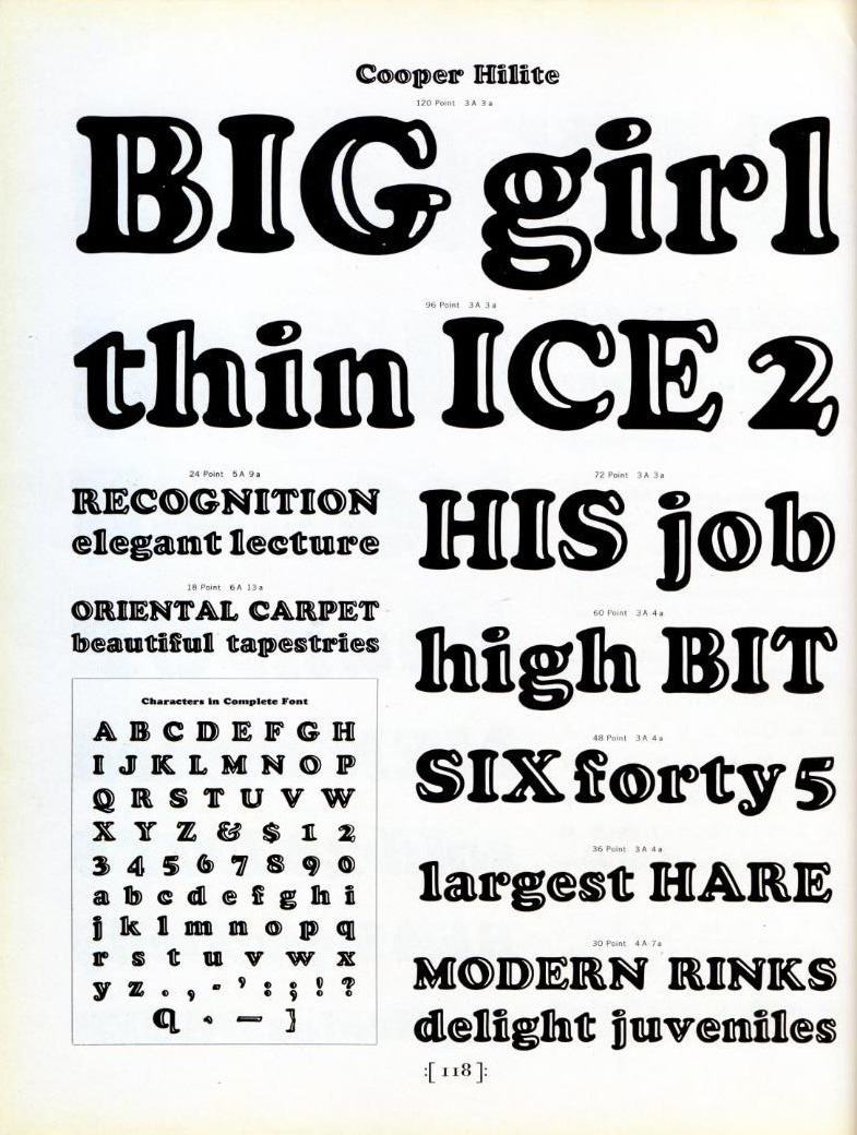 from